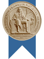 The Franklin Awards Logo is provided courtesy of the Franklin Institute Public Relations Department.